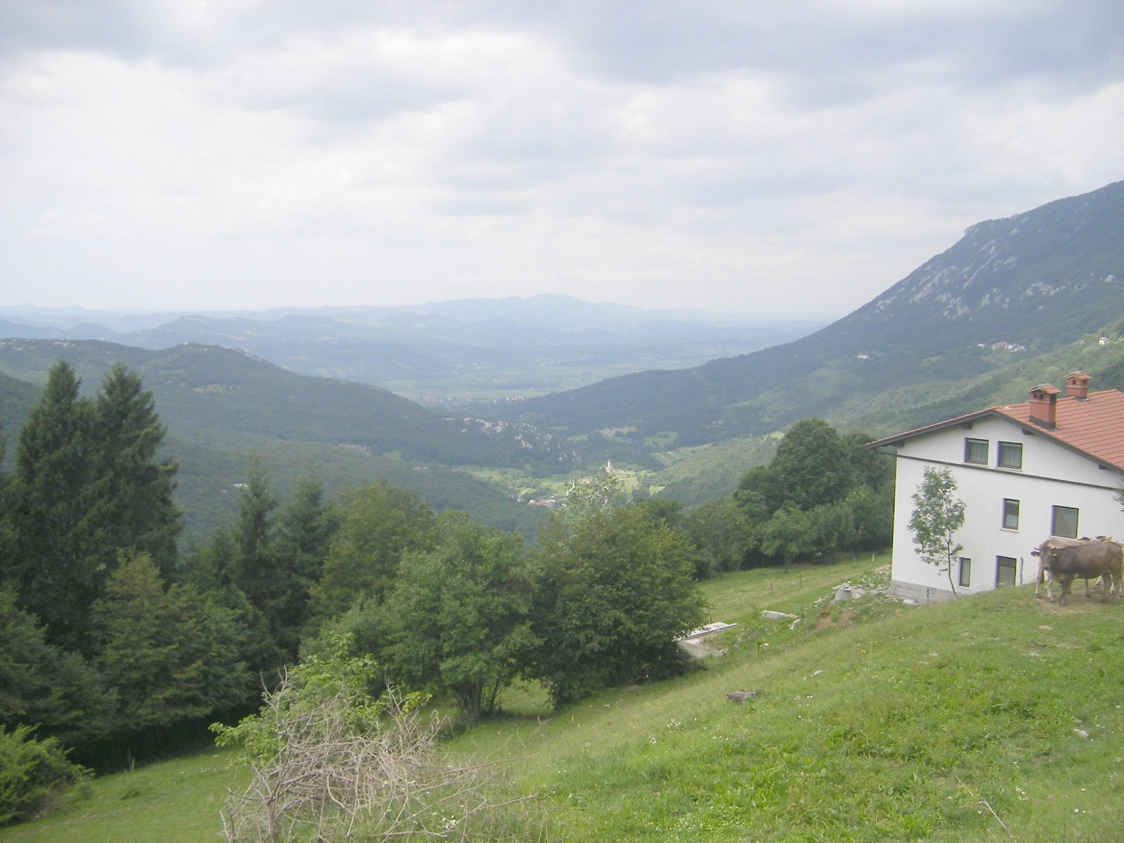 View toward the Vipavska Dolina between Podkraj and Col (Ajdovščina municipality)